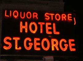 this picture was taken by me, and I allow anyone to use it.